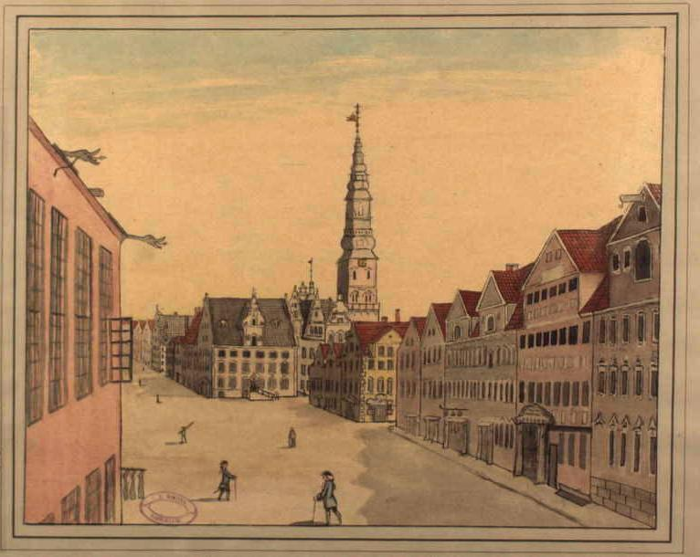 Painting of Amagertorv in Copenhagen, Denmark